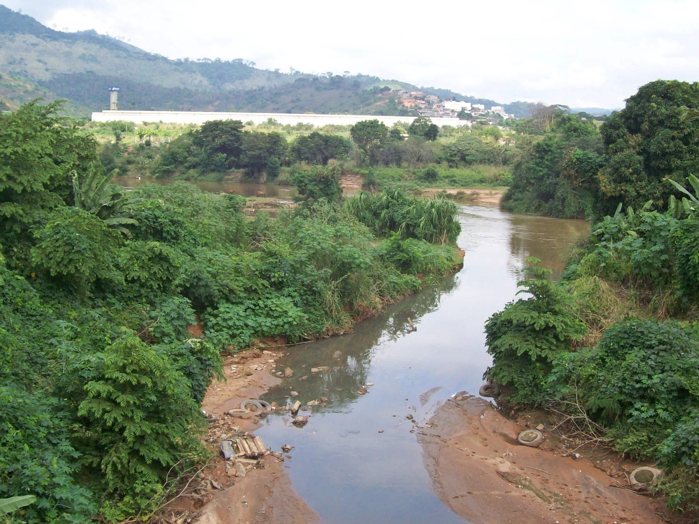 View of the river mouth of the Caladinho stream in the Piracicaba River, in Coronel Fabriciano, Minas Gerais, Brazil.